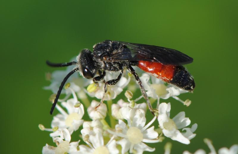 Sphecodes gibbus. Location: The Netherlands - Rijsenhout